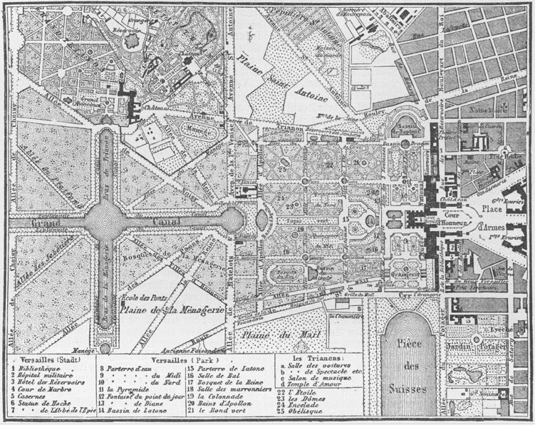 Karte Schloss Versailles MKL1888